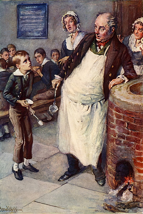 Charles Dickens - Oliver Twist